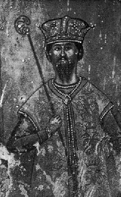 Detail of icon of Karl Topia, made by Kostandin Shpataraku in the Ardenica Monastery in the 18th century.